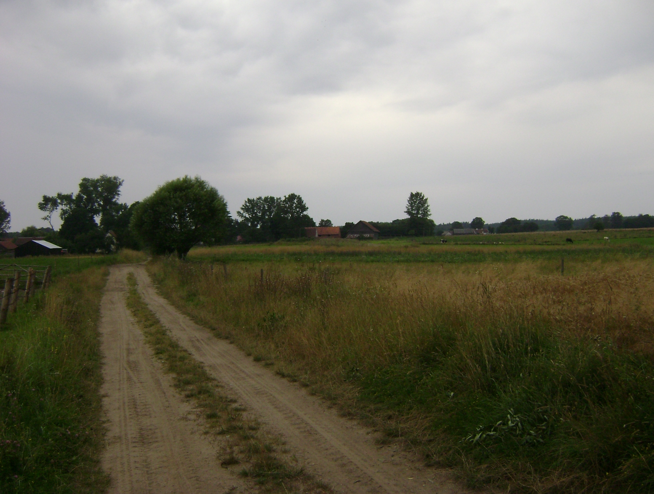 Poland. Gmina Pasym. Narajty Village